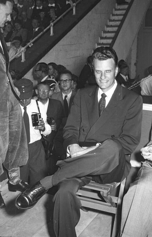 Billy Graham in Duisburg, Sommer 1954